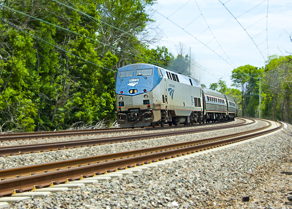 Amtrak's "Pennsylvanian" (TR#43), a six car consist powered by AMTK #84, a GE Genesis P42DC diesel-electric locomotive, rounding the Rosemont Curve (MP 10.8) at Rosemont, PA, over Track #3 of the four track "Main Line" portion of the Philadelphia-Pittsburgh Keystone Corridor rail line as it makes its daily westbound run from New York to Pittsburgh.